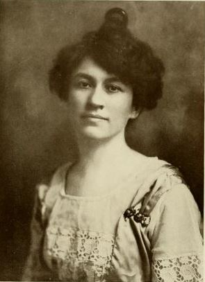 Lucille Erskine, Kajiwara Photo, Johnson, Anne (André) "Mrs. Charles P. Johnson", 1871-. Notable women of St. Louis, 1914; (Kindle Location 4402). [St. Louis, Woodward.]